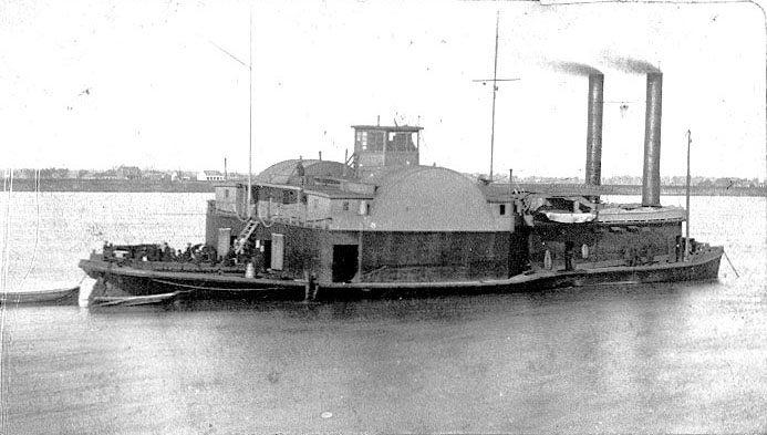 USS General Price (1863-1865). Off Baton Rouge, Louisiana, 18 January 1864. The original print is mounted on a Carte de Visite. U.S. Naval History and Heritage Command Photograph.